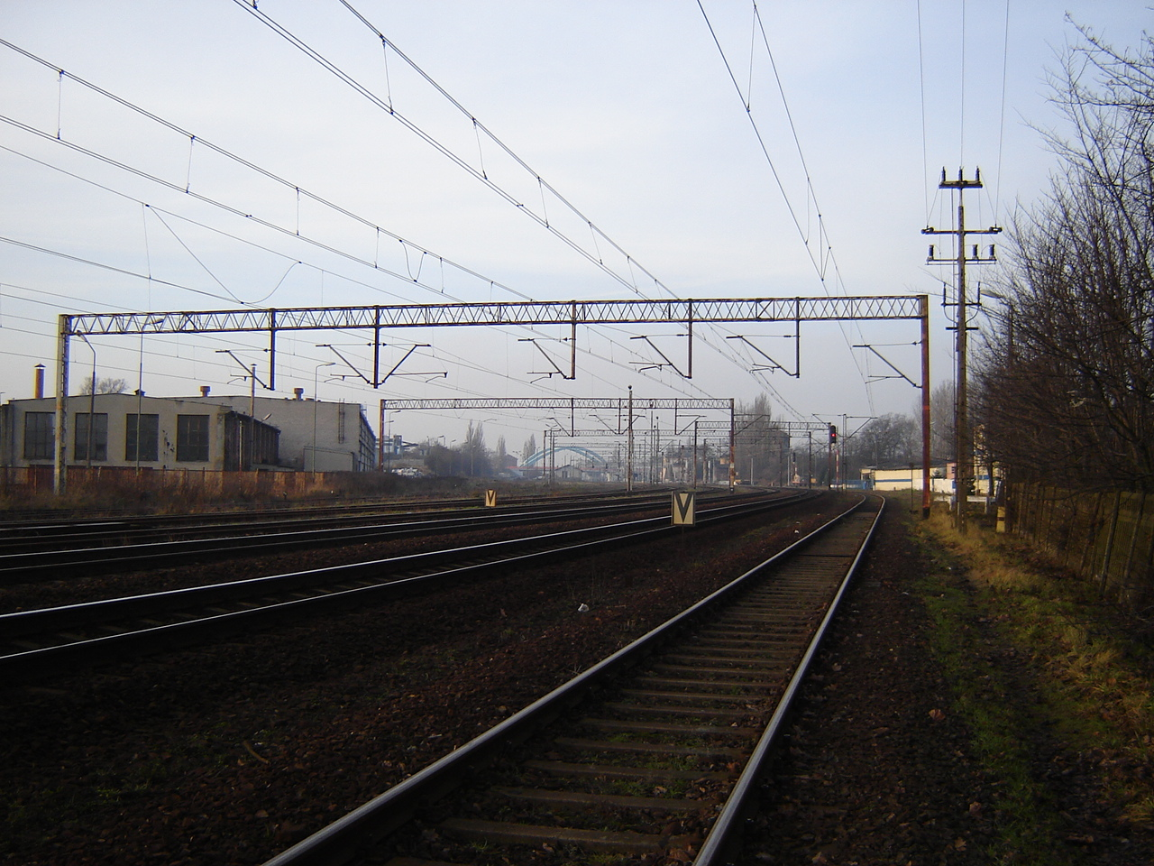 Overhead lines over railway line 351 near Choszczno, West Pomeranian Voivodeship, Poland.